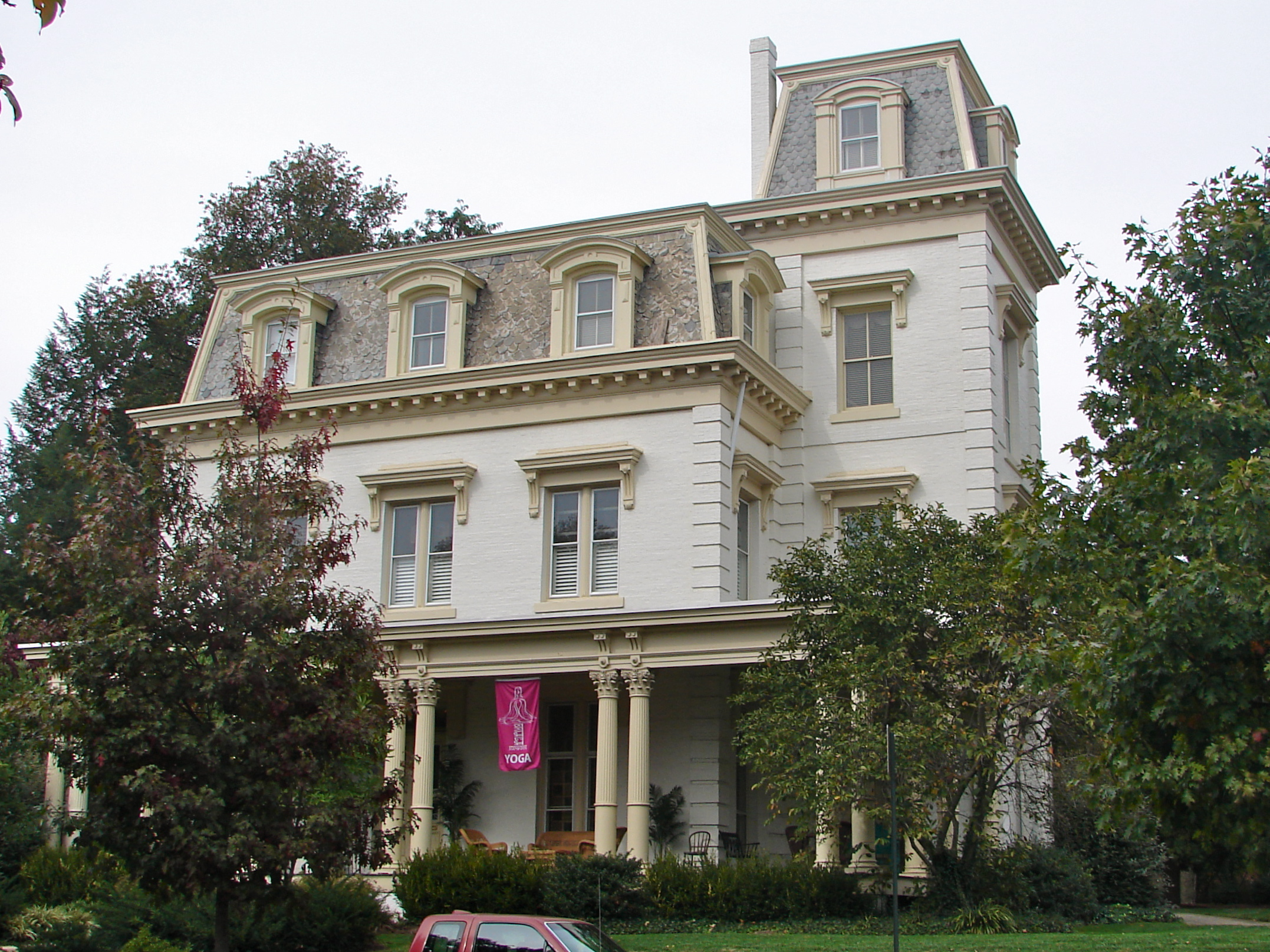 "West Lawn" on the NRHP since May 3, 1984. At 407 West Chestnut Street in the Chestnut Hill neighborhood of Lancaster, Pennsylvania. Across the street from Thaddeus Stevens High School, also on the NRHP.